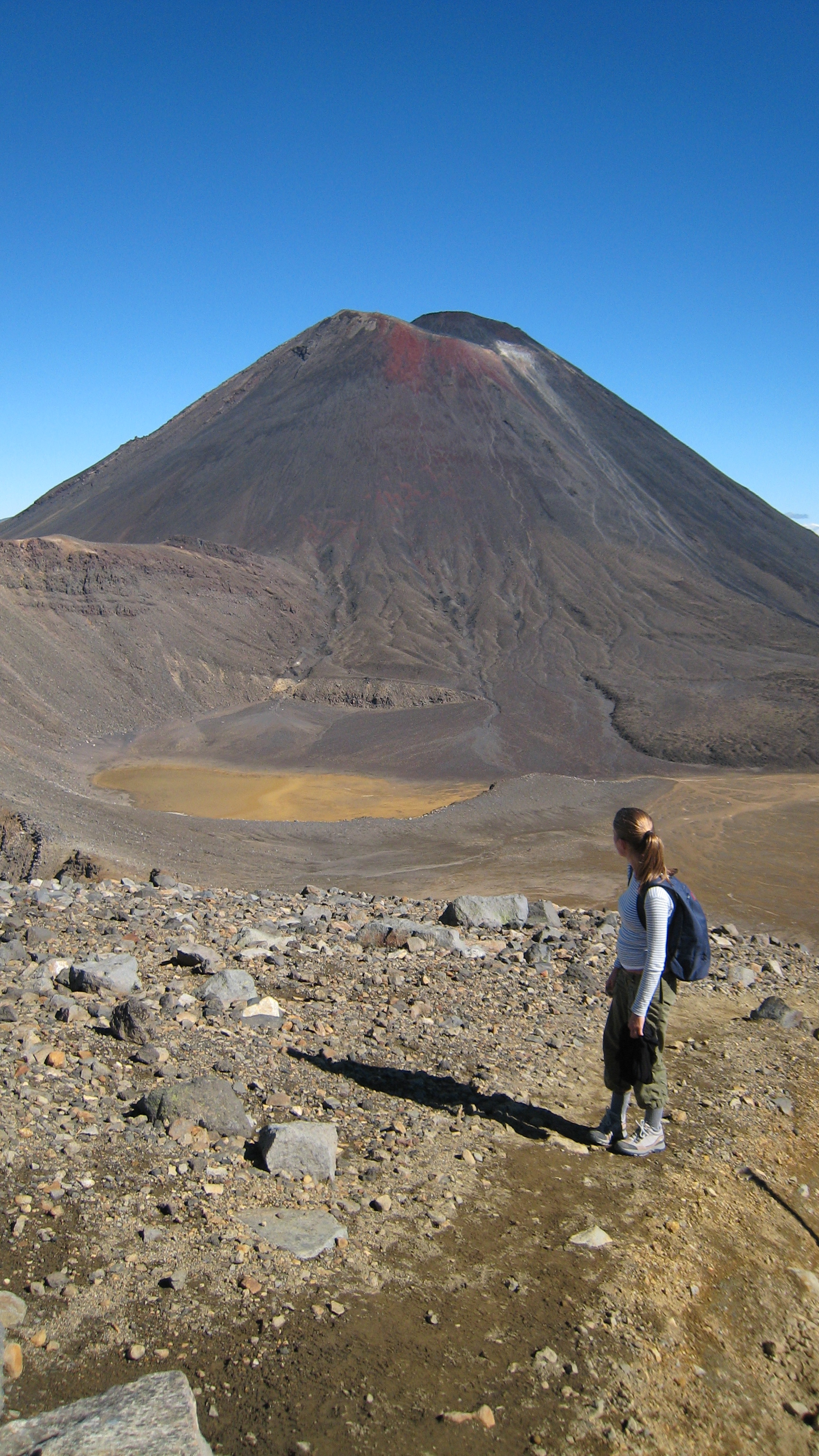 Photo of Mount Ngauruhoe from the starting climb of Red Crater.